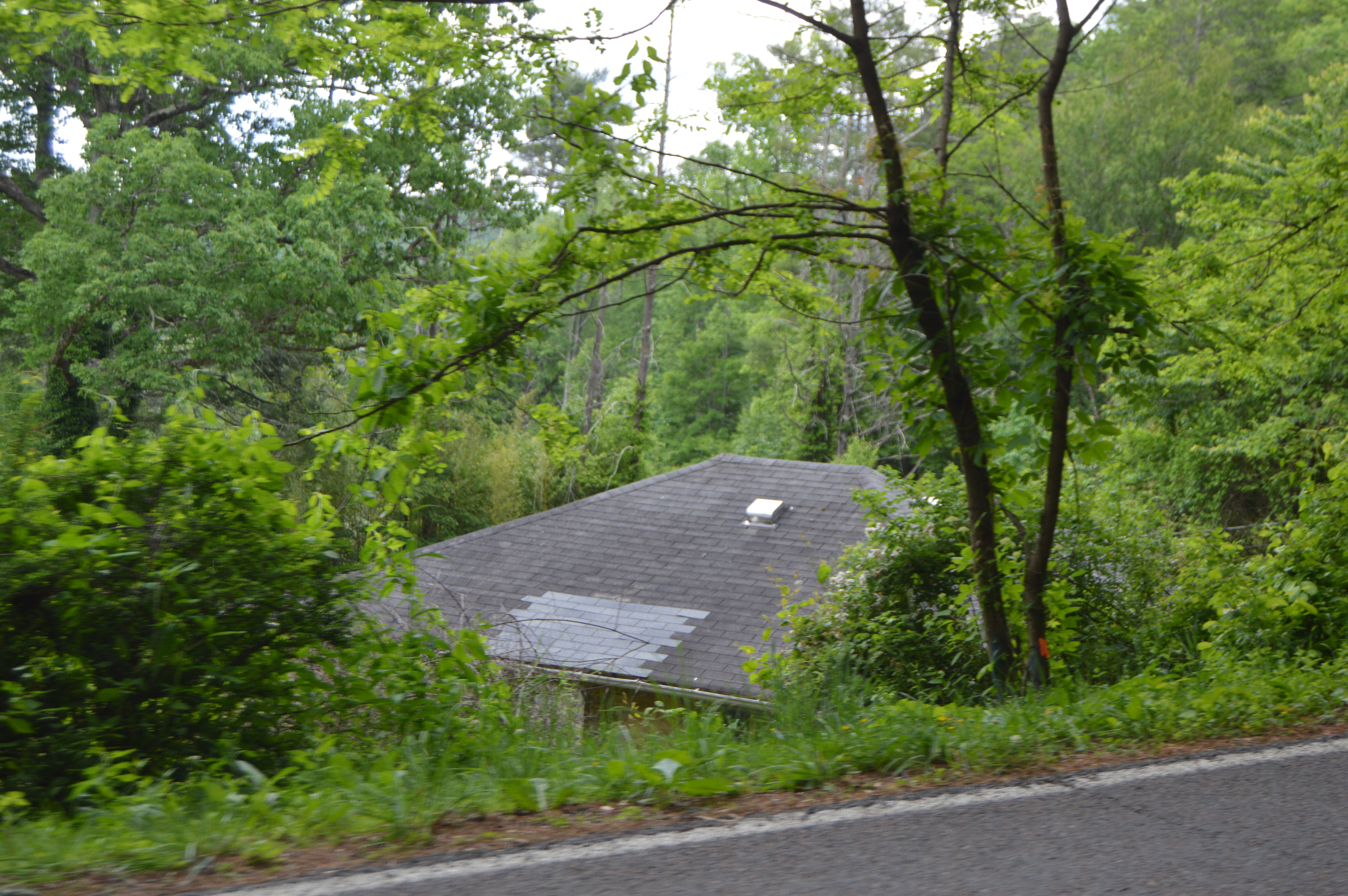 Roof of the garage for the Milligan Shuford Wise House, located along Dellinger Road in Crossnore, North Carolina, United States. Together with its house (now destroyed?) and another nearby, it is listed on the National Register of Historic Places.